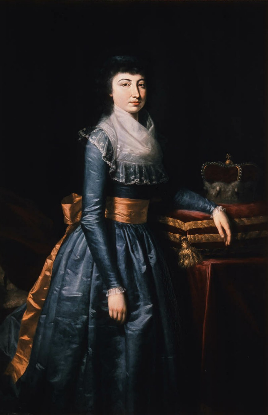 Archduchess Maria Leopoldine of Austria-Este (1776-1848), Electress of Bavaria (wife of Prince Elector Carl Theodor of Bavaria)